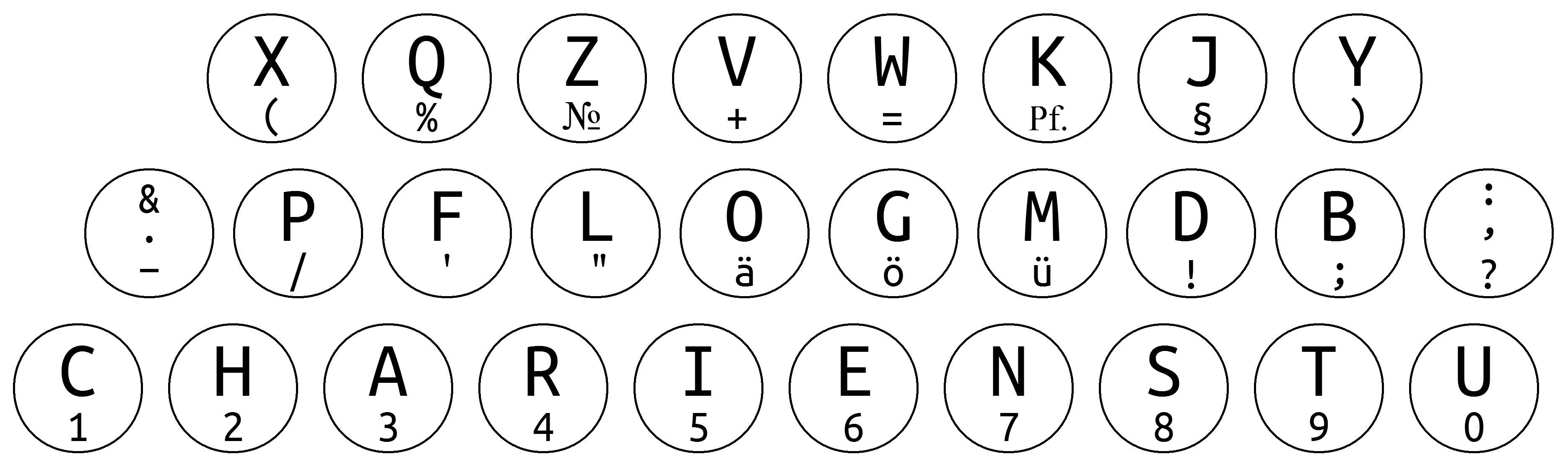 Keyboard layout of the German version of Blickensderfer Mod. 8 as produced in 1906. See e.g.